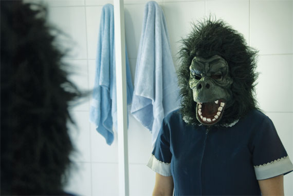 Catalina Saavedra - The Maid scene - Winner of the Grand Jury Prize at the Sundance Film Festival 2009